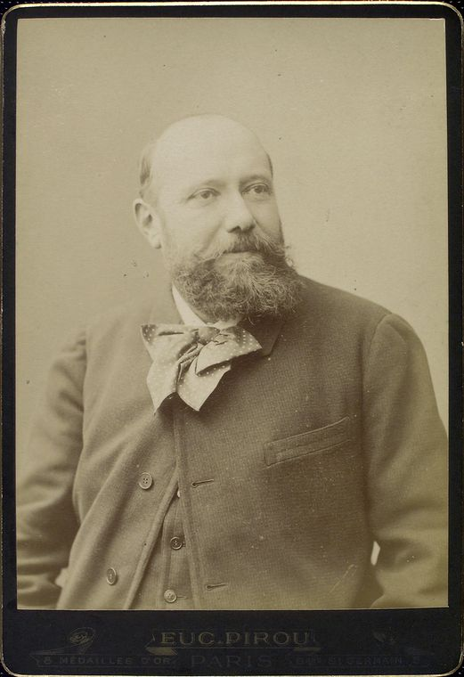 Armand Sylvestre portrait